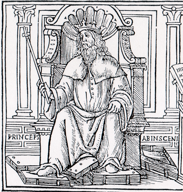 edition of the Canon and its commentary by Gentile da Foligno, Venice 1520